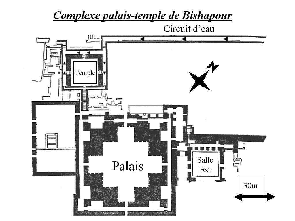 french version made by myself of a Sheme of the persian sassanide complex of Bishapour, Iran